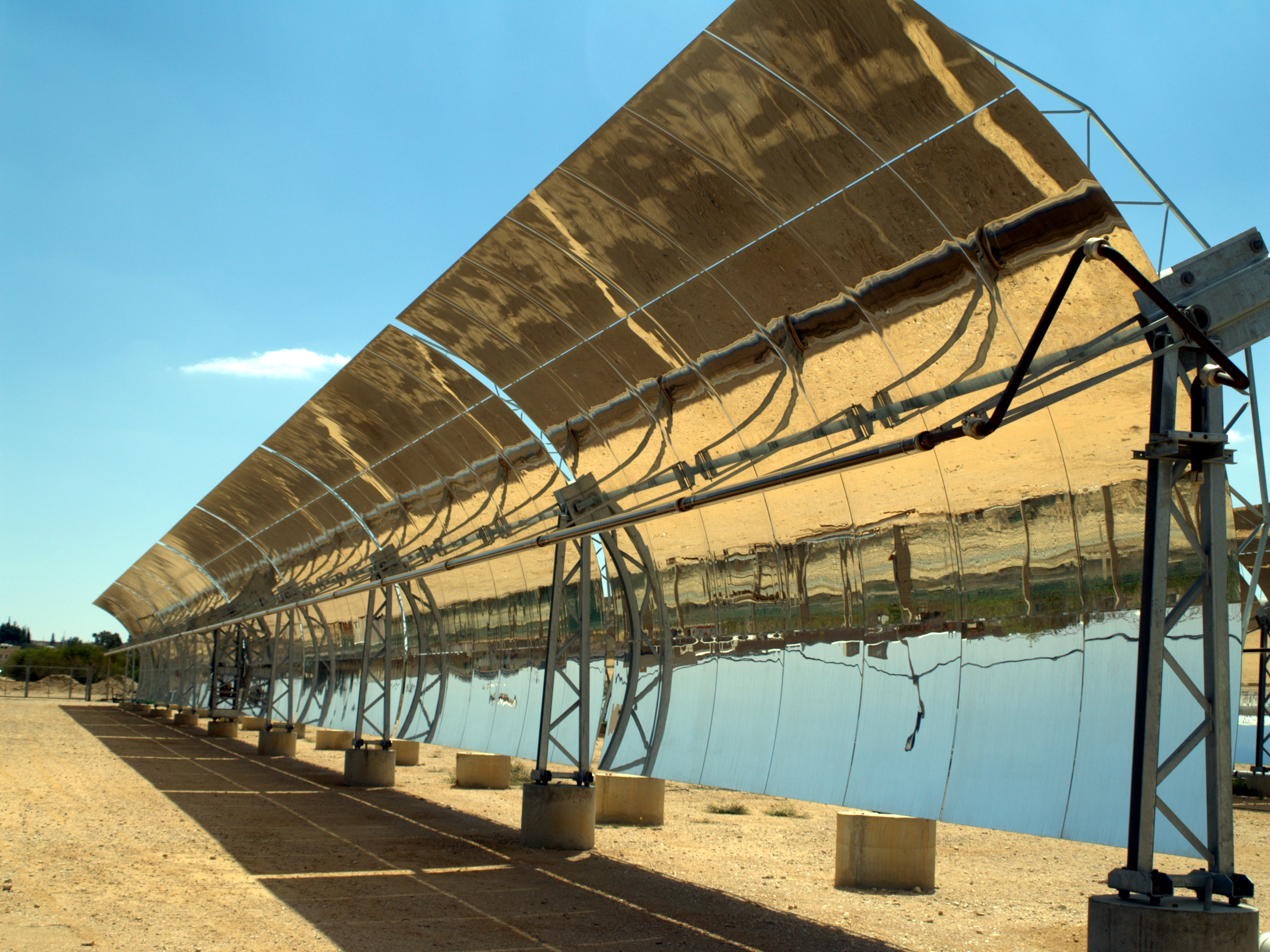 Downtown Beersheba, Israel.